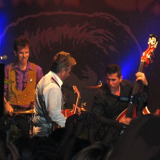 Stray Cats live in Sweden, 2008